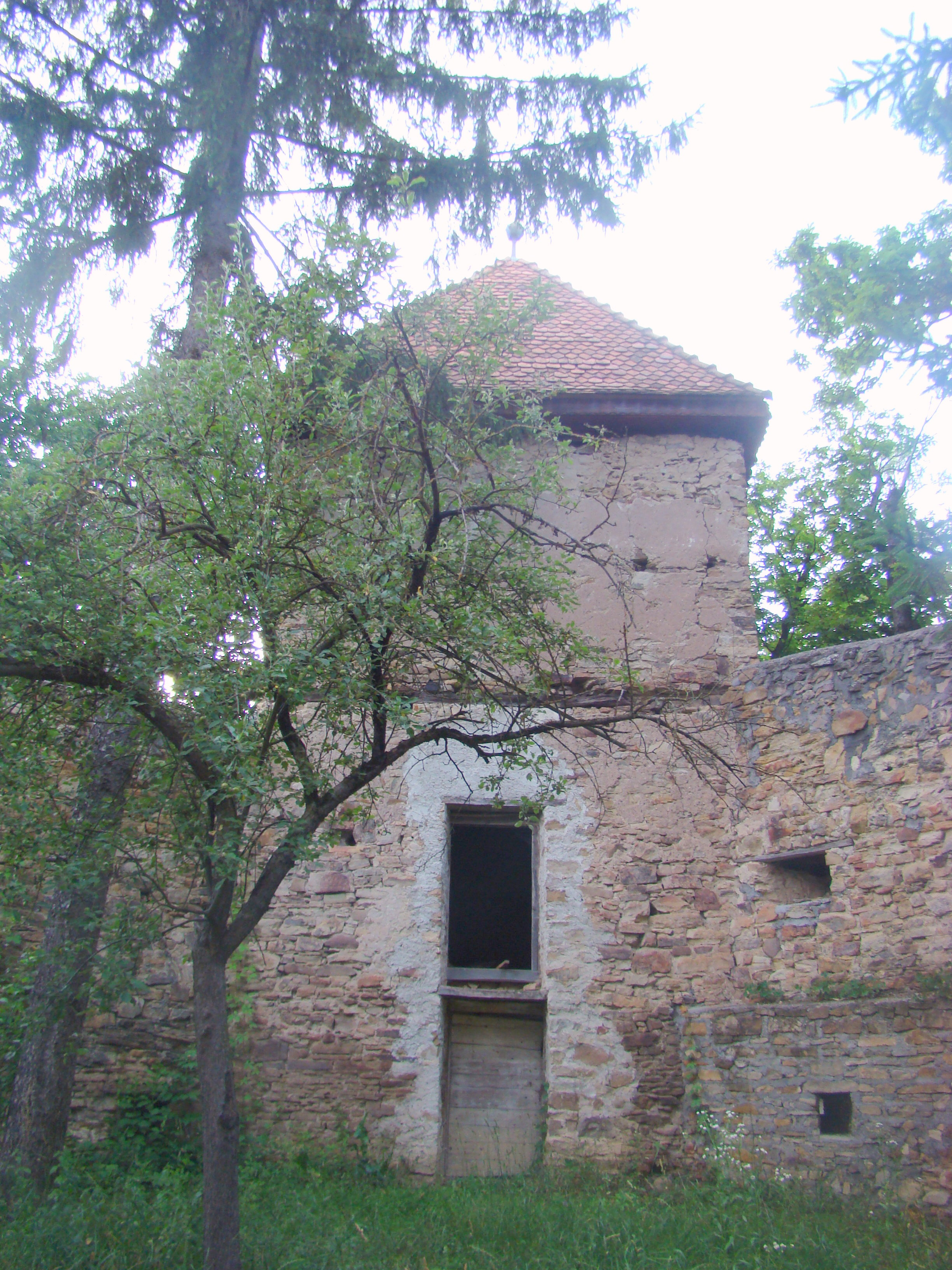 Fortified church in Ticușu Vechi, Brașov County, Romania